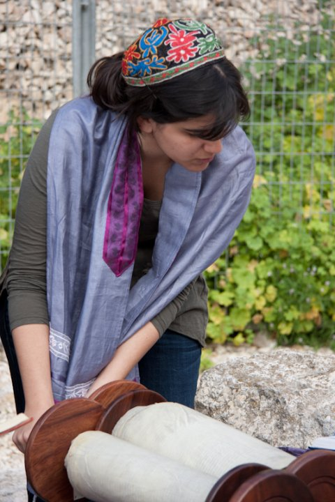 Member of Women of the Wall, at torah reading.